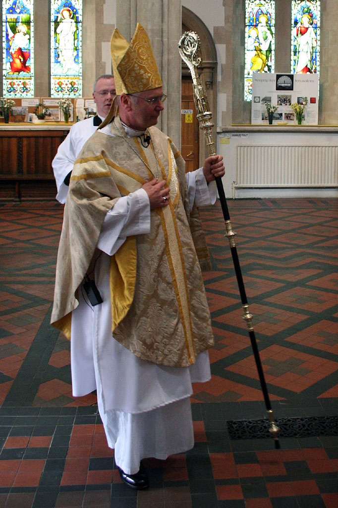 Title: The Most Reverend Dr Idris Jones, Primus of the Scottish Episcopal Church and Bishop of Glasgow and Galloway Date: 31 May 2006 Photographer: Stewart D. Macfarlane